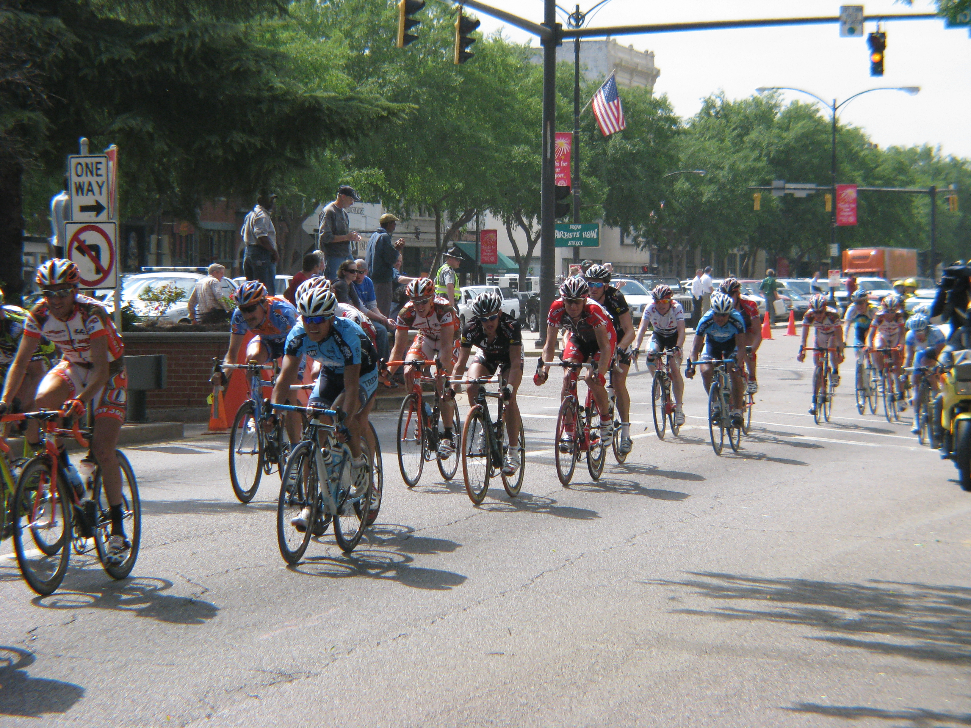 2008 Tour de Georgia, on Broad Street, Augusta, Georgia, USA